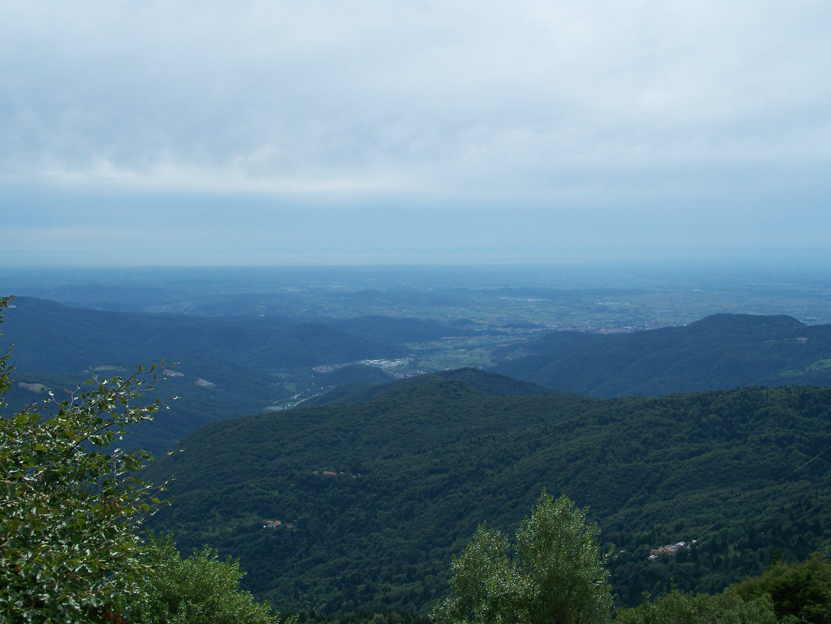 View of Friuli from the Alpine Hut Pelizzo, on Monte Matajur